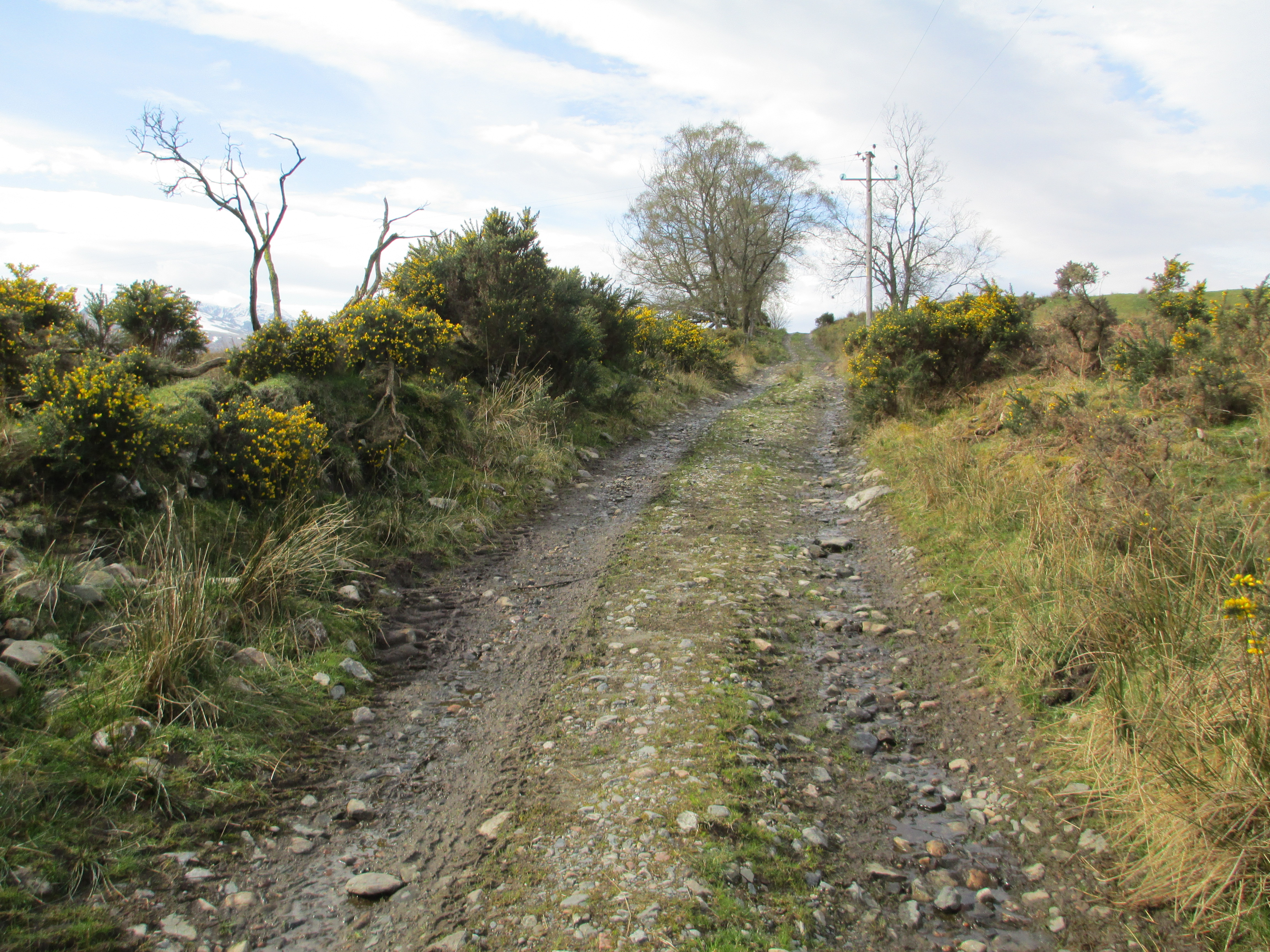 Wade's military road near Highbridge